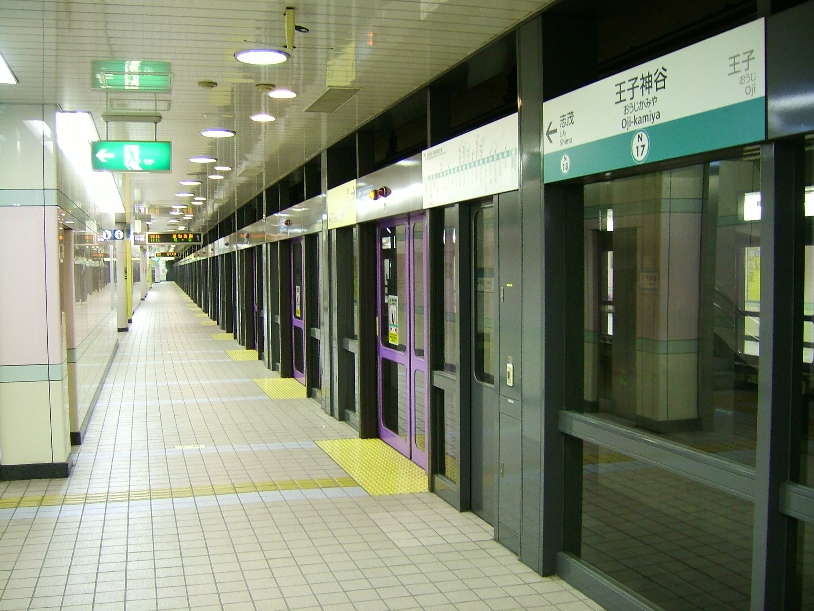 The platform at Ōji-Kamiya Station on the Tokyo Metro Namboku Line in Kita city, Tokyo, Japan